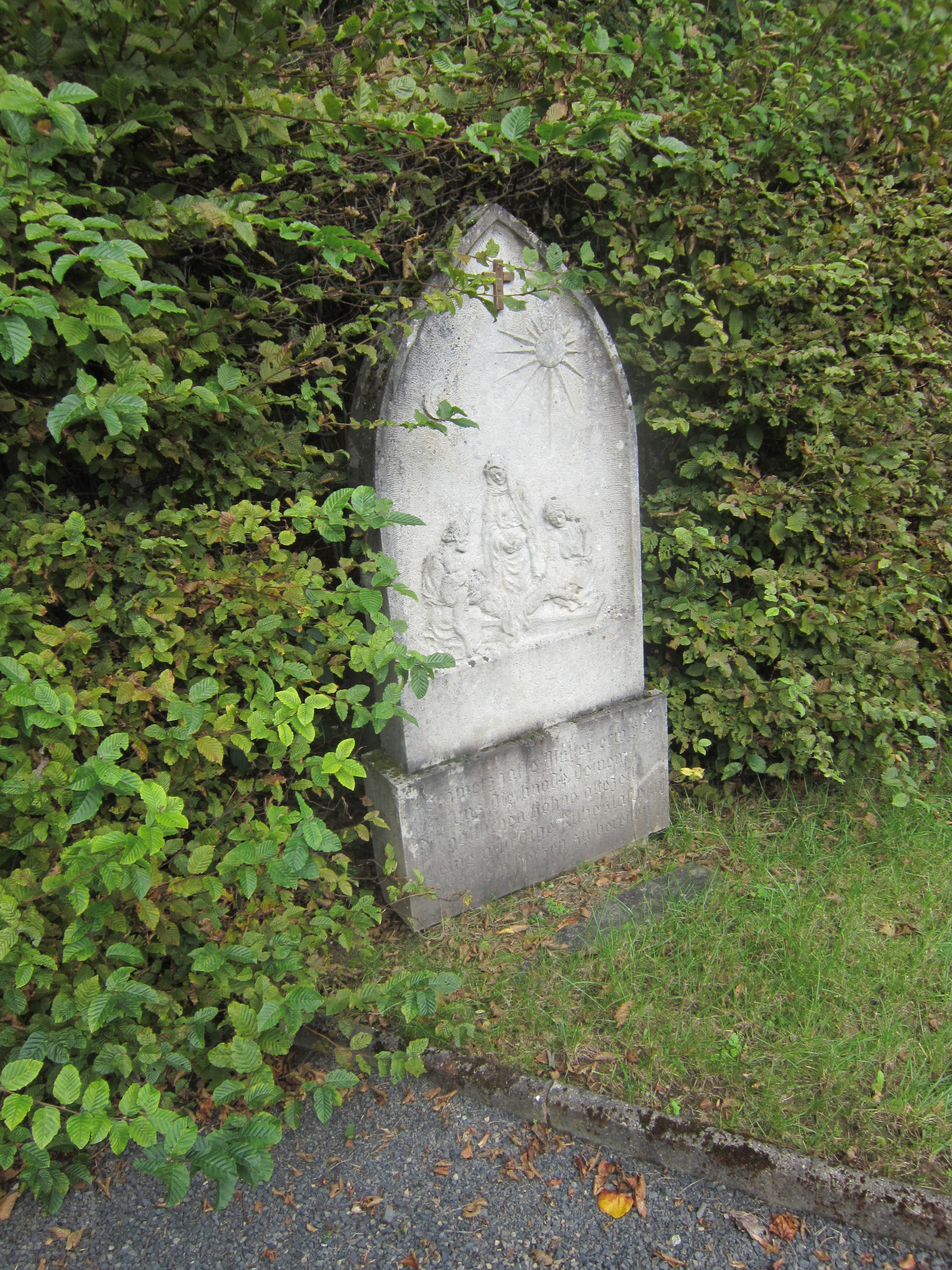 7th Seven Sorrows station at the Heimkehrerkapelle in Stangenroth, a quarter of the German town of Burkardroth in Lower Franconia (Bavaria).